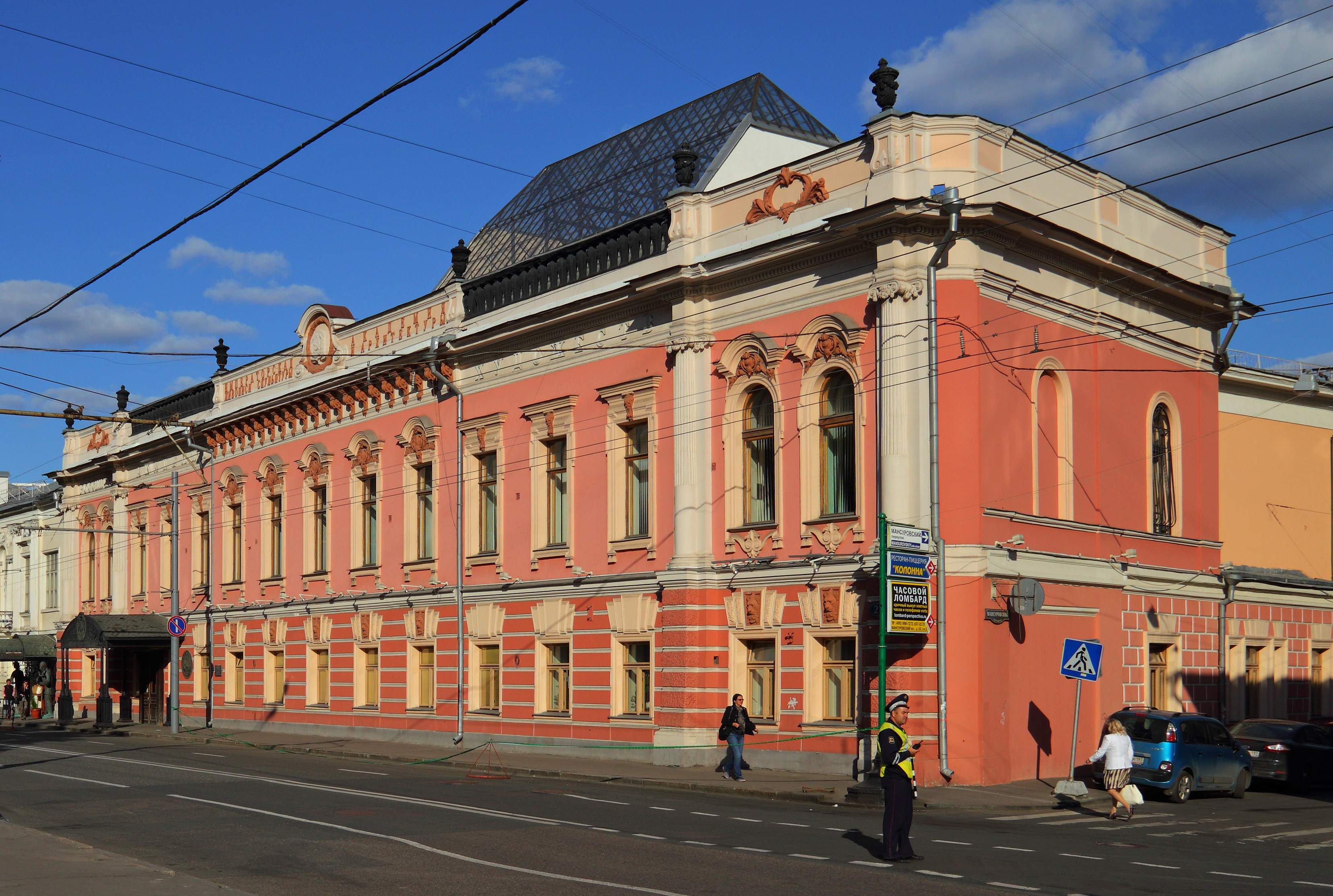 Moscow, Russia. Prechistenka Street. Former Morozov Estate.